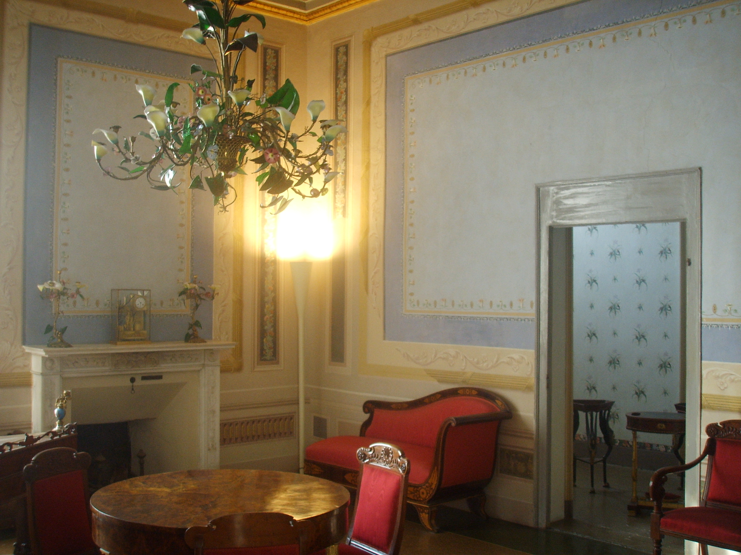 Round table and fainting couch, sitting room, interior Villa medicea di Poggio a Caiano, Italy